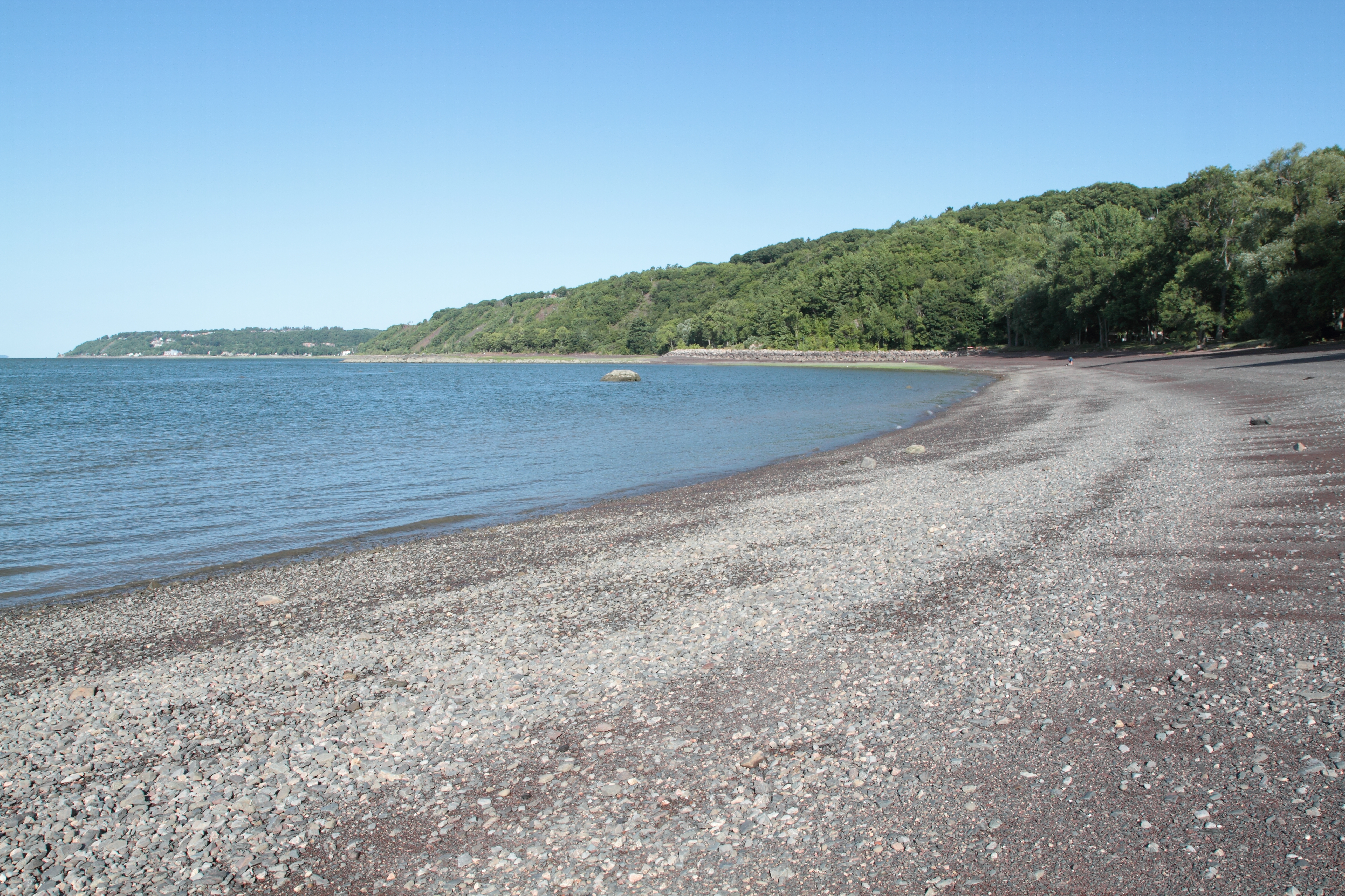 Plage-Jacques-Cartier park, Quebec City, Canada